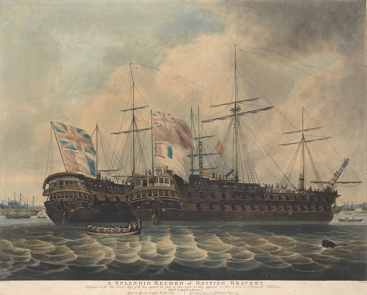 This print is one of a series depicting the six French ships captured by the British fleet under Admiral Lord Howe at the Battle of the First of June, 1794, which took place 400 (nautical) miles west of the French island of Ushant. This plate, the first in the series, portrays L'Amerique (America, 74 guns), left, and Le Juste (80 guns) from their stern quarter at anchor at Spithead, the port to which Howe returned with his six prizes after the battle.